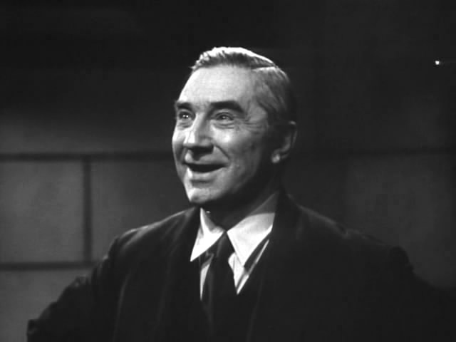 Bela Lugosi in "The Devil Bat" (1940), which is now in the public domain.